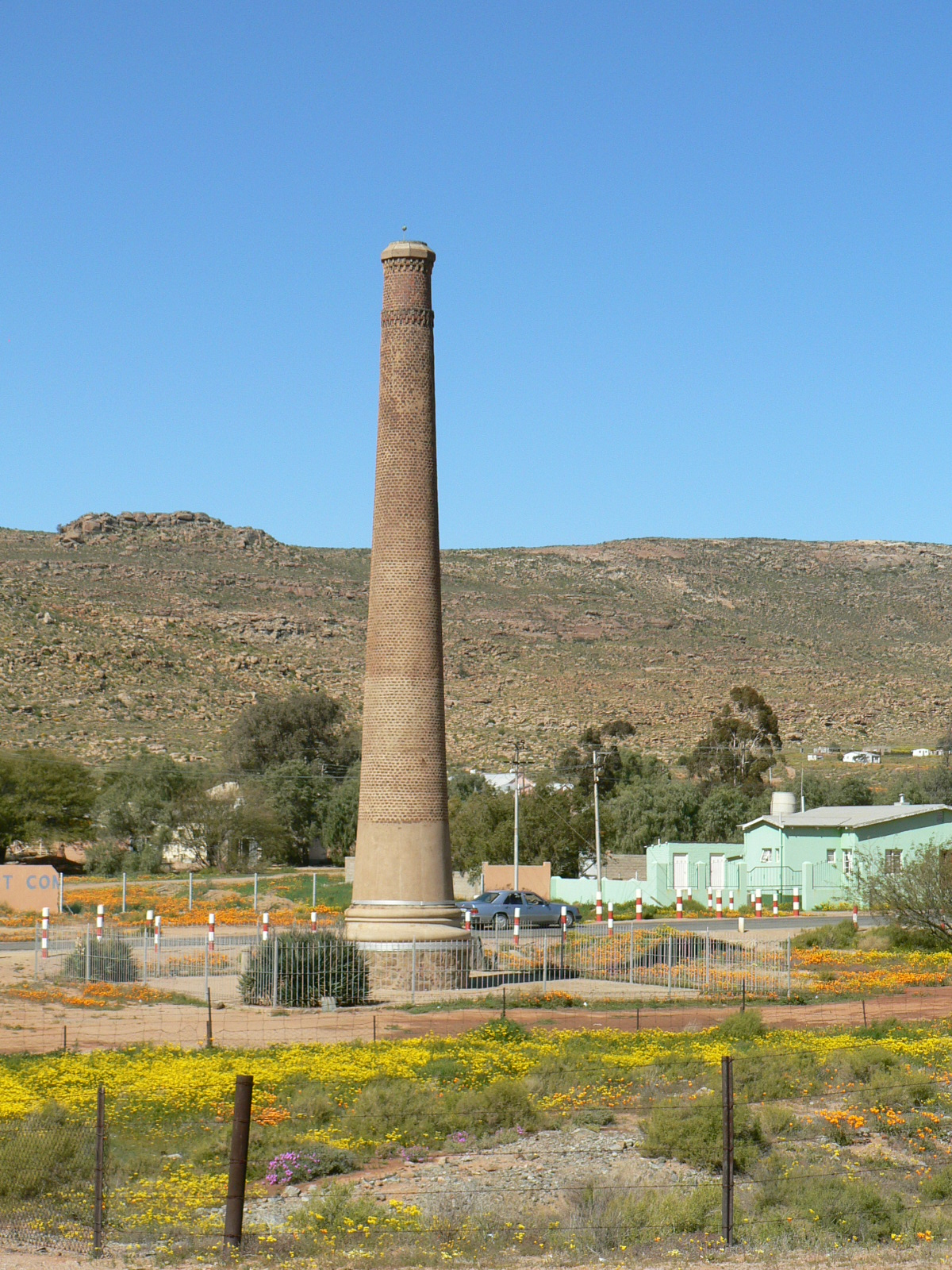 Industrial heritage at flower time. This is part of an important copper mining industrial landscape that is on the tenative list of world heritage sites. This media shows a South African Protected Site with SAHRA file reference 9/2/066/0016.